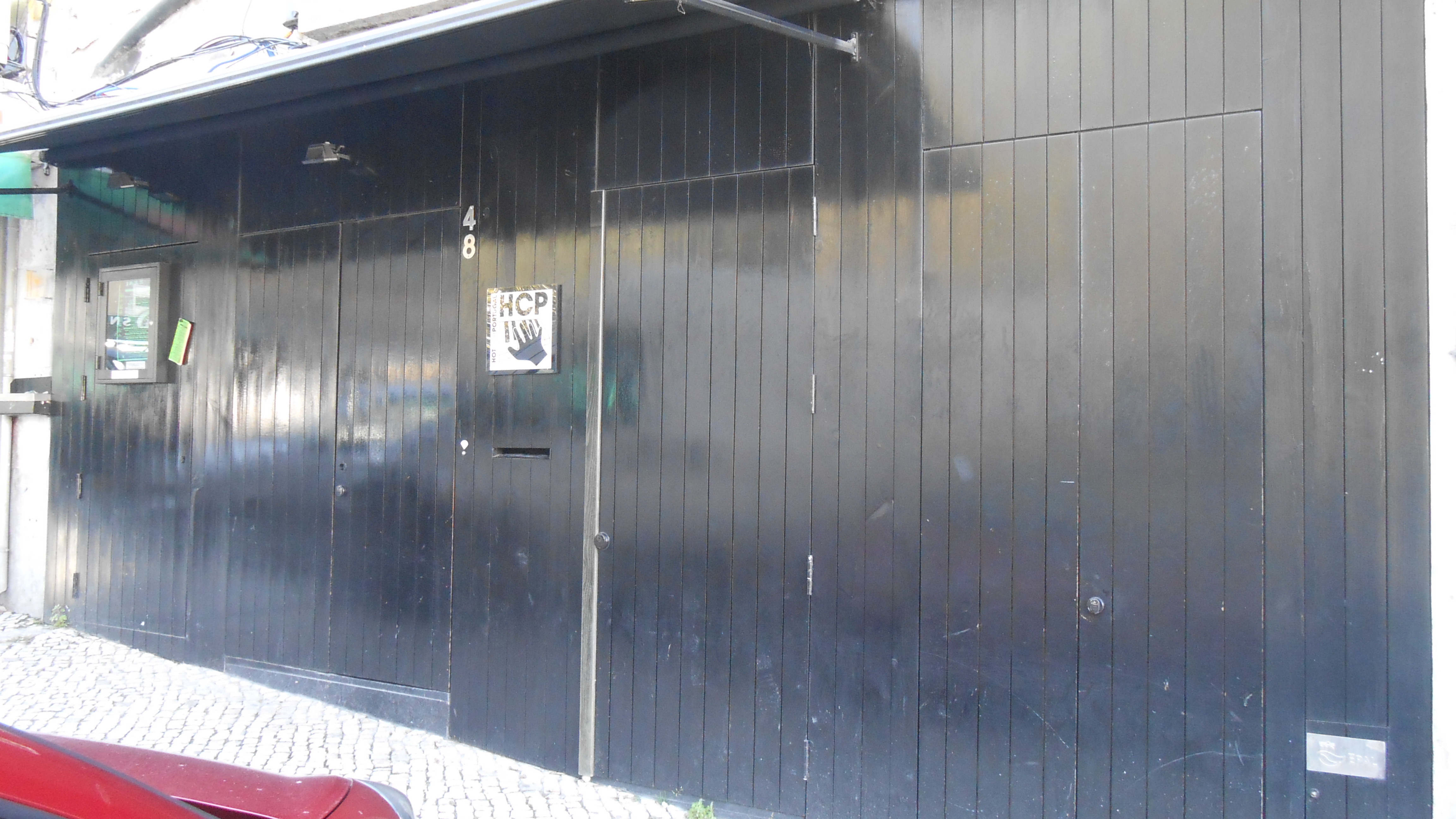 Entrance of the new Hot Clube de Portugal (HCP), located close to the old HCP.